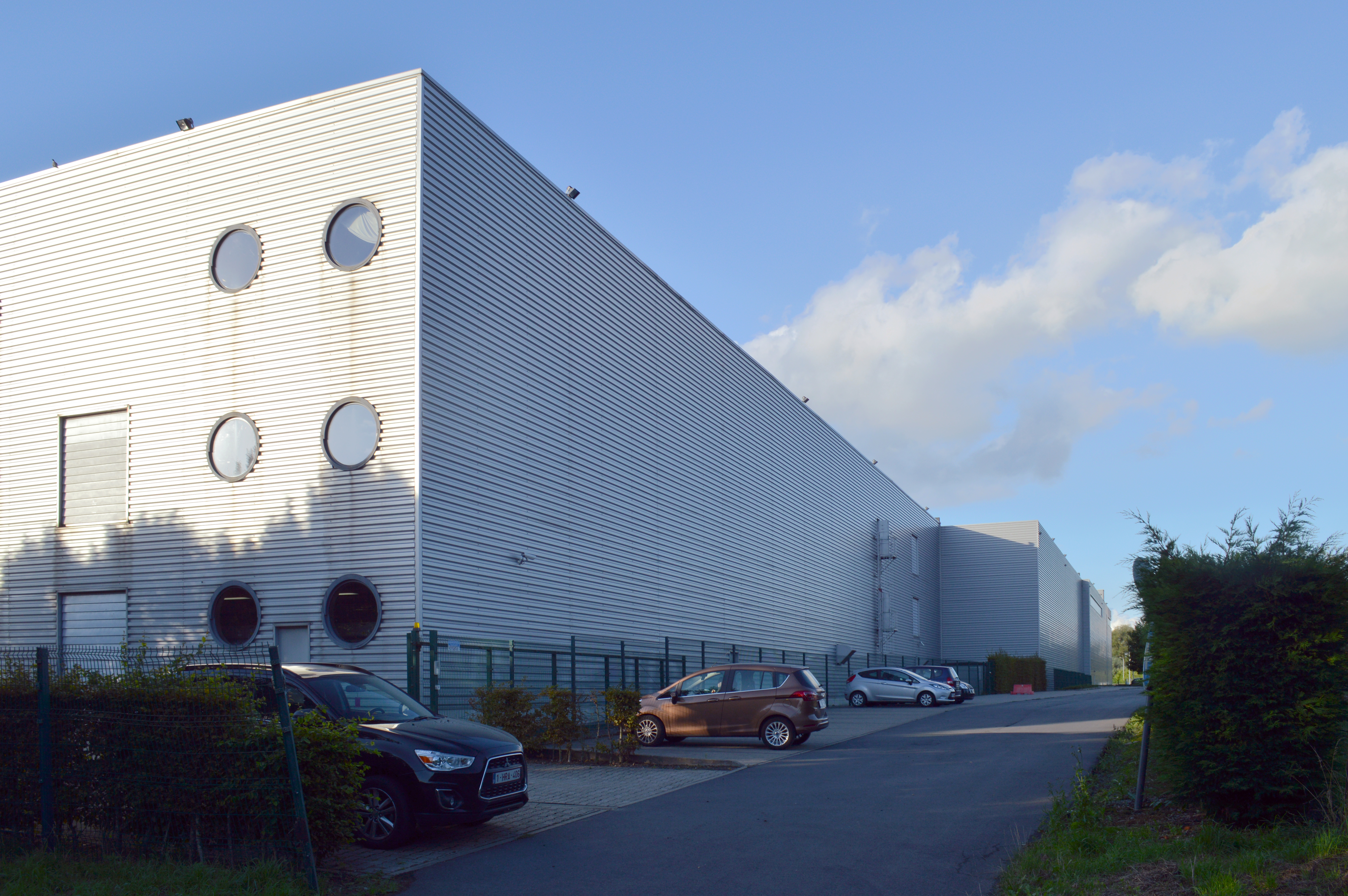 Van de Velde's distribution center in Wichelen